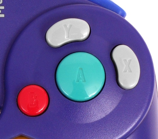 Gamecube controller face buttons.